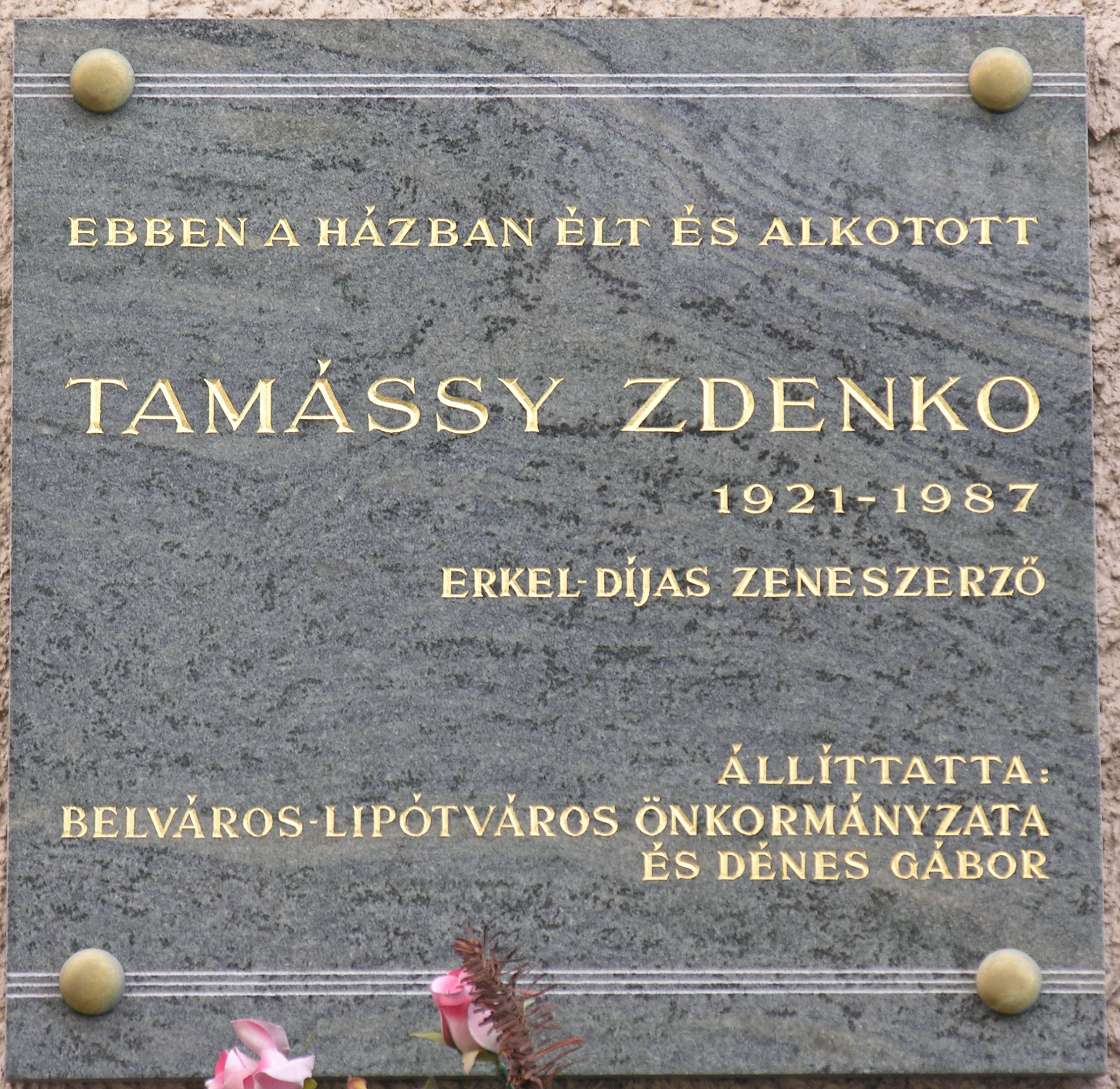 Commemorative plaque of Zdenkó Tamássy in Budapest District V, Markó Street No 3/a